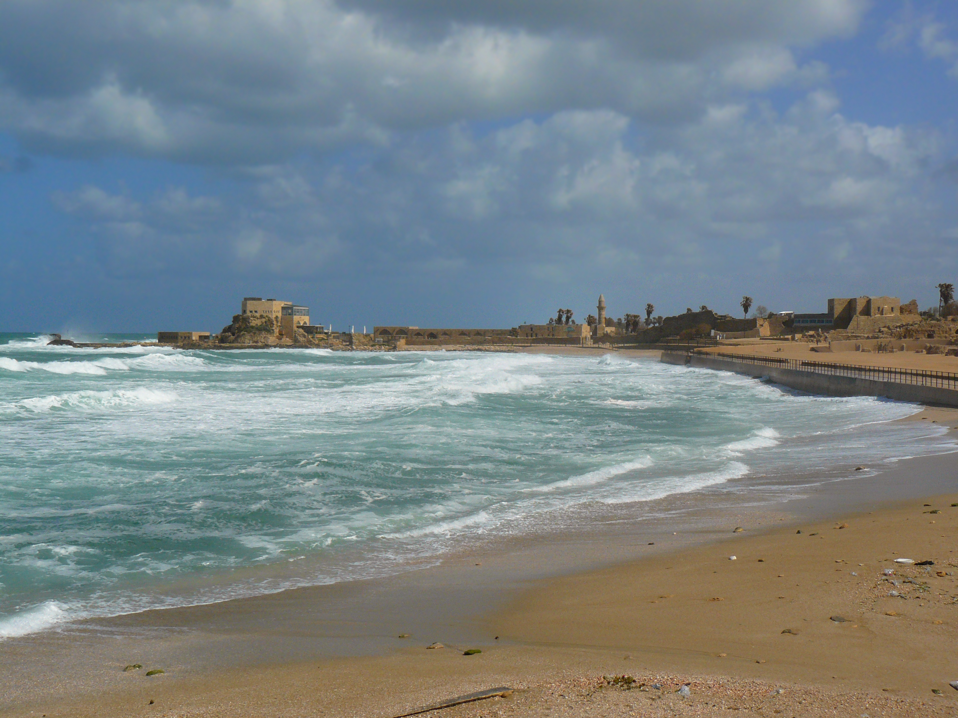 The view of the ruins of ancient Caesarea Palaestina which lie on the Mediterranean coast of Israel.